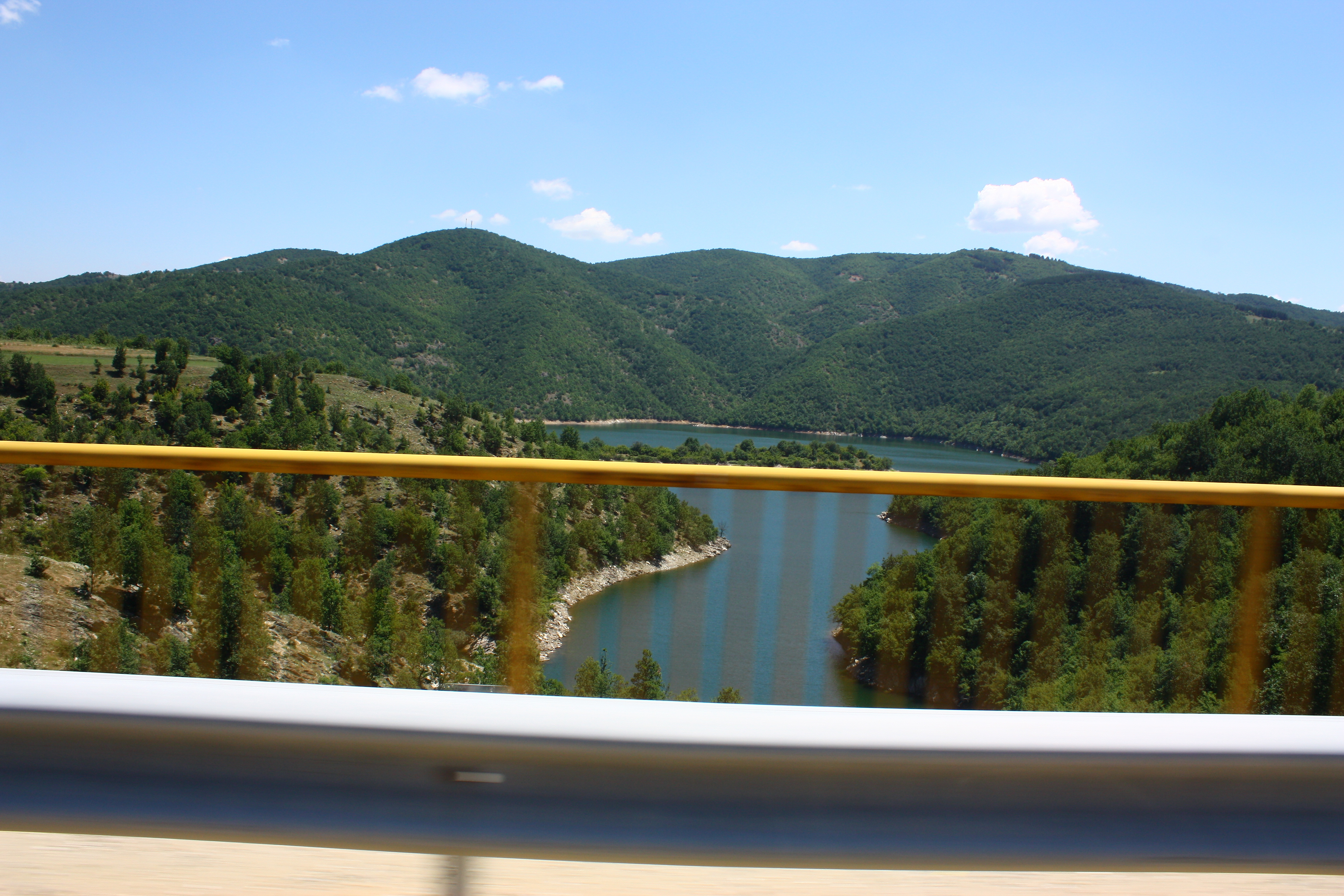 Kalimanci Lake, Macedonia